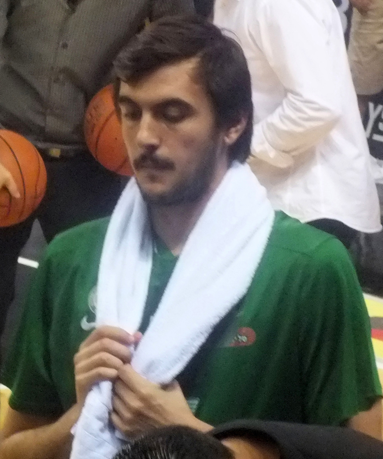 Player for The Greens in the 2012/13 season.